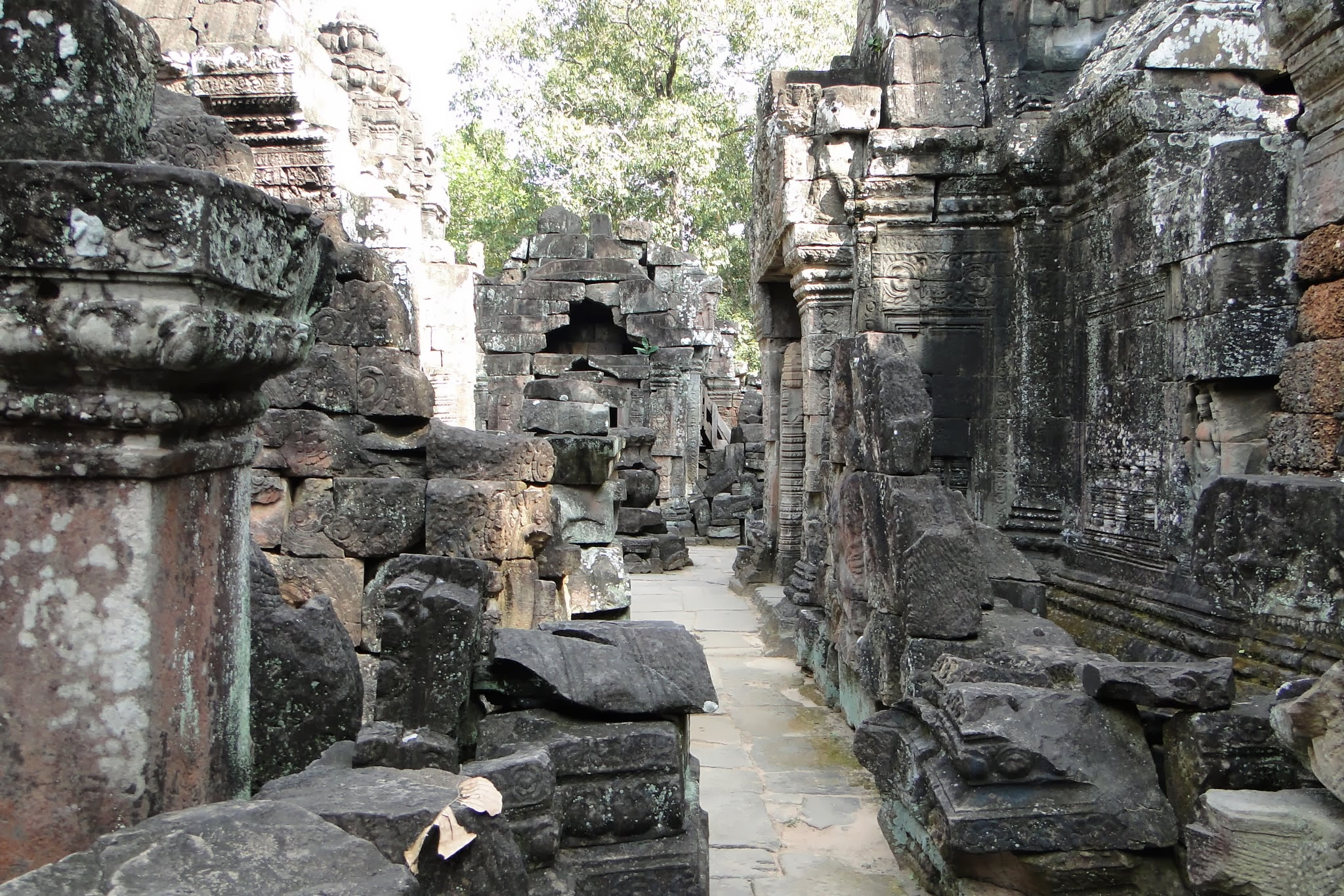 Ruins of the temple